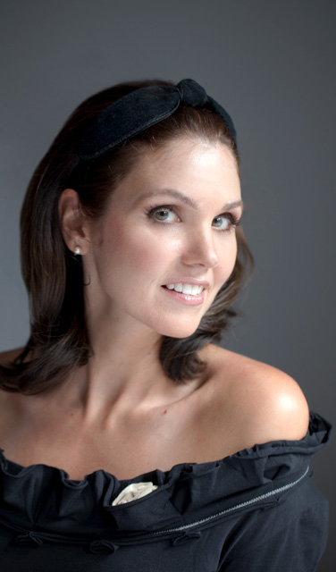 Designer Jennifer Ouellette wearing a millinery felt turban.